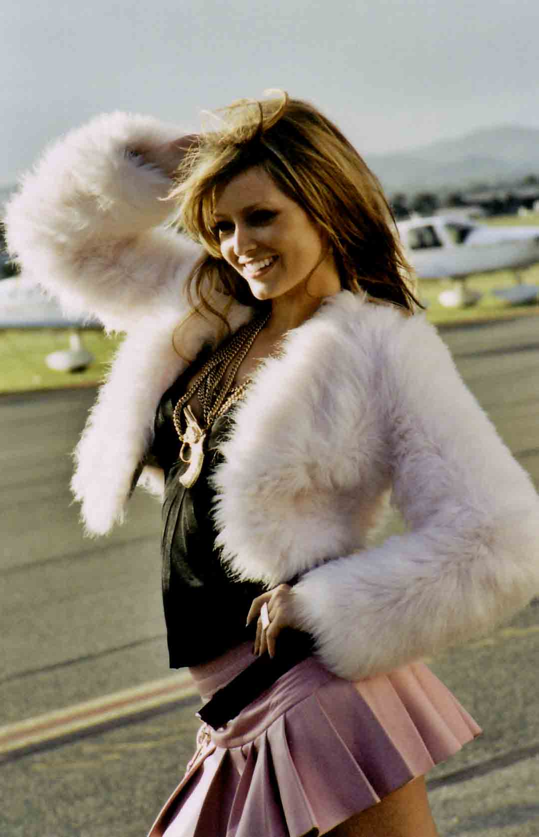 Holly Valance Airport